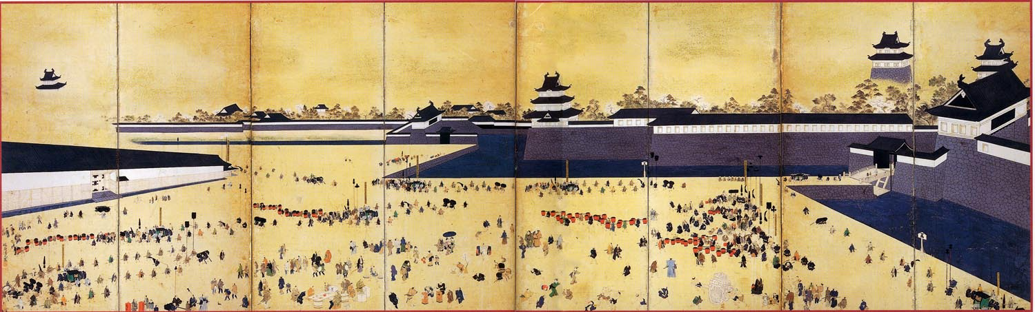 "Folding Screen Depicting Scenes of the Attendance of Daimyo at Edo Castle". National Museum of Japanese History.